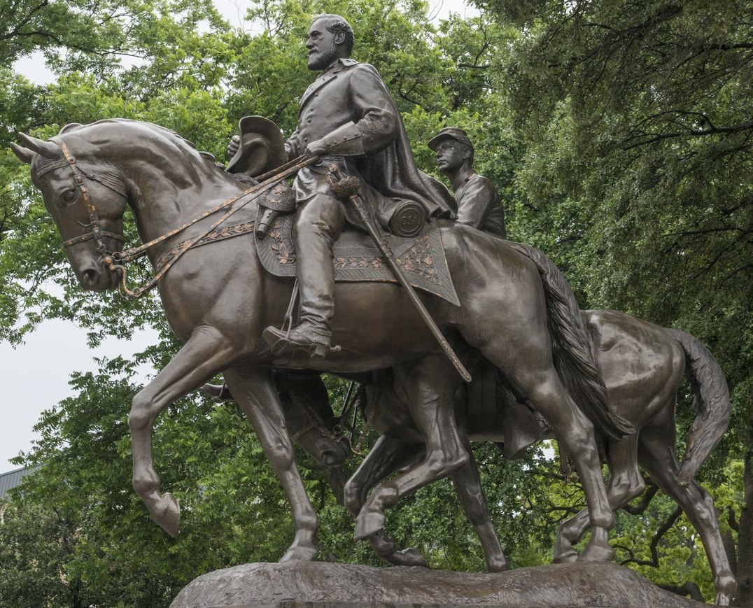 Title: Equestrian statue of Confederate General Robert E. Lee, astride his horse, Traveller, in the park that surrounds the headquarters of the Dallas Park Board in Oak Lawn section of Dallas, Texas Physical description: 1 photograph : digital, tiff file, color. Notes: Accompanying the general is a young rider, representing not an aide-de-camp but, according to the sculptor, the "youth of the South" who fought under Lee's command. The heroic-sized scupture was executed by Alexander Phimister Proctor, an early-21st Century American sculptor with the contemporary reputation as one of the nation's foremost animaliers, or sculptor of animals. The park office is a smaller-than-actual-size replica of Lee's Virginia home, Arlington House.; Title, date, and keywords based on information provided by the photographer.; Gift; The Lyda Hill Foundation; 2014; (DLC/PP-2014:054).; Forms part of: Lyda Hill Texas Collection of Photographs in Carol M. Highsmith's America Project in the Carol M. Highsmith Archive.; Credit line: The Lyda Hill Texas Collection of Photographs in Carol M. Highsmith's America Project, Library of Congress, Prints and Photographs Division.